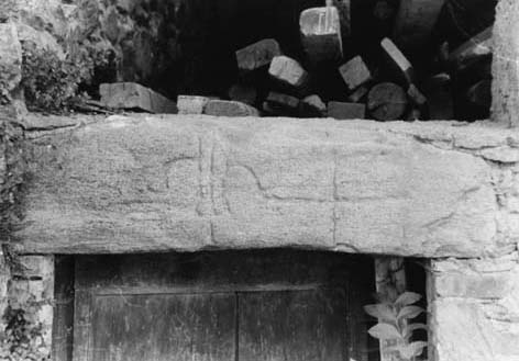 old Sonvico pictures